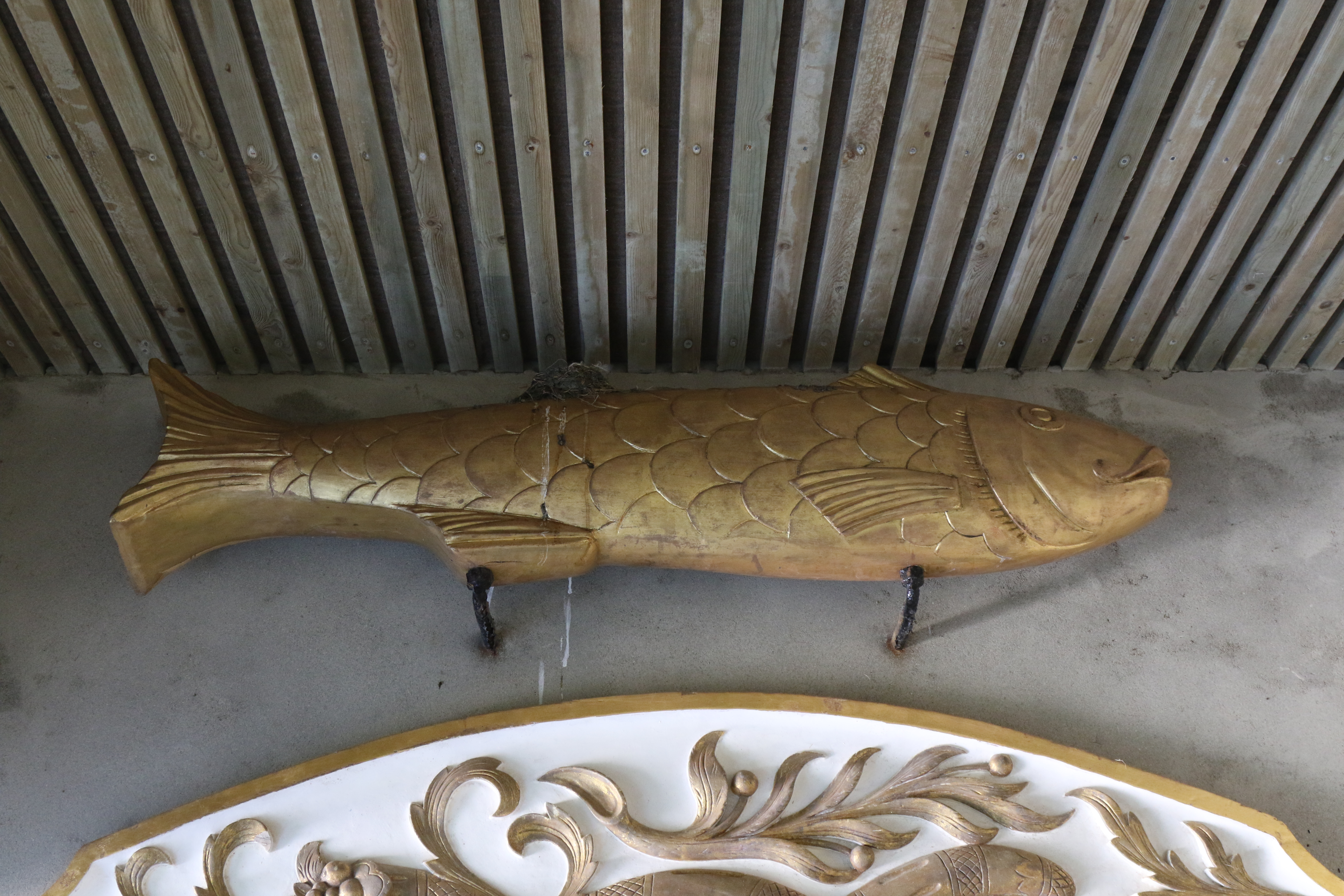 Wrecked on Tresco in January 1871